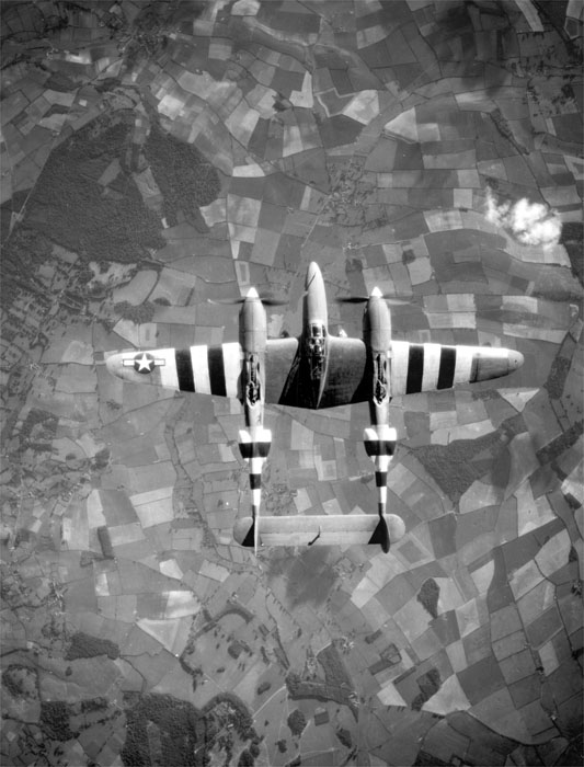 Photo reconnaissance Lockheed F-5 Lightning photographed against the English countryside from the vertical camera installation of another photo Lightning.